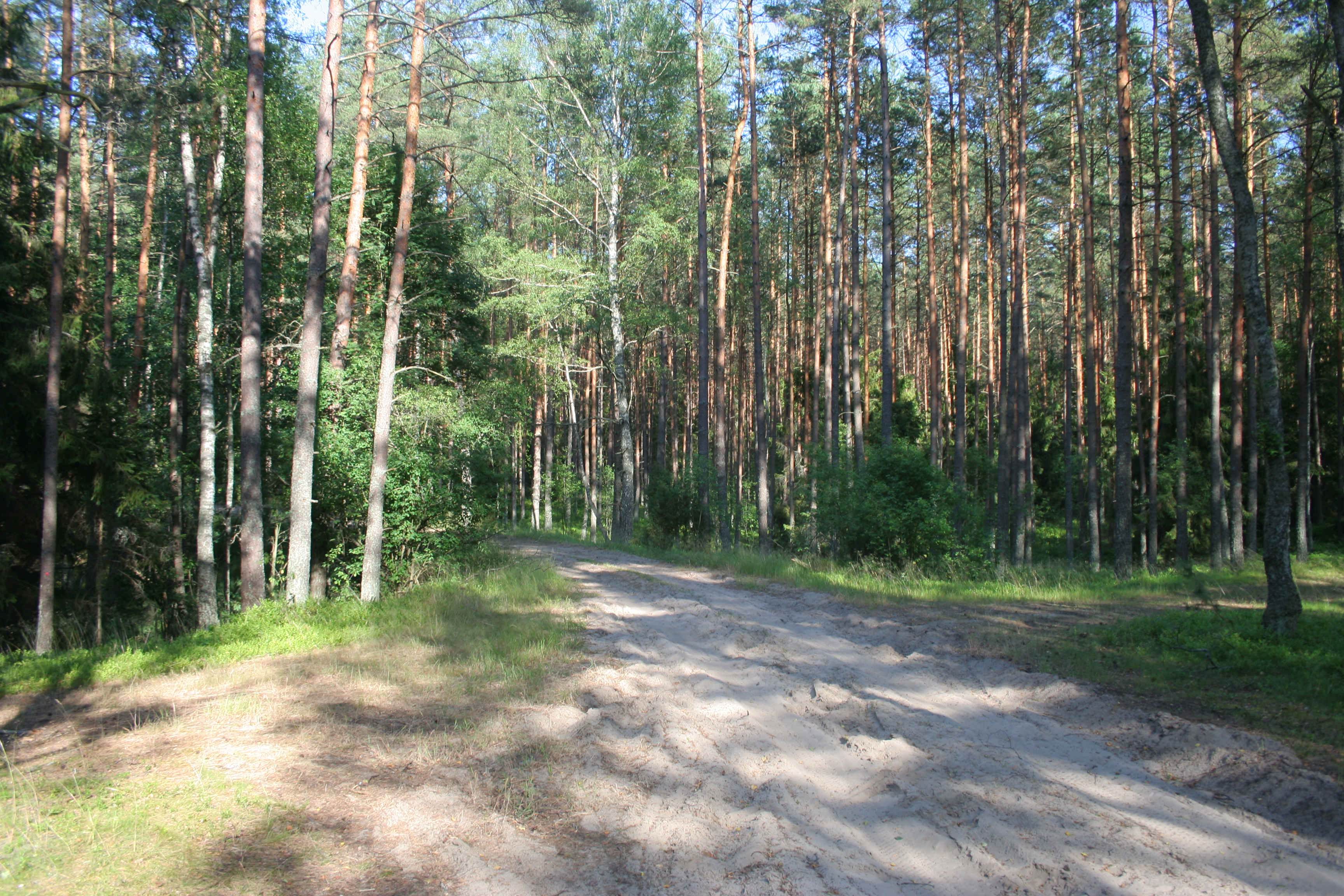 Road in Piaśnica Forest.